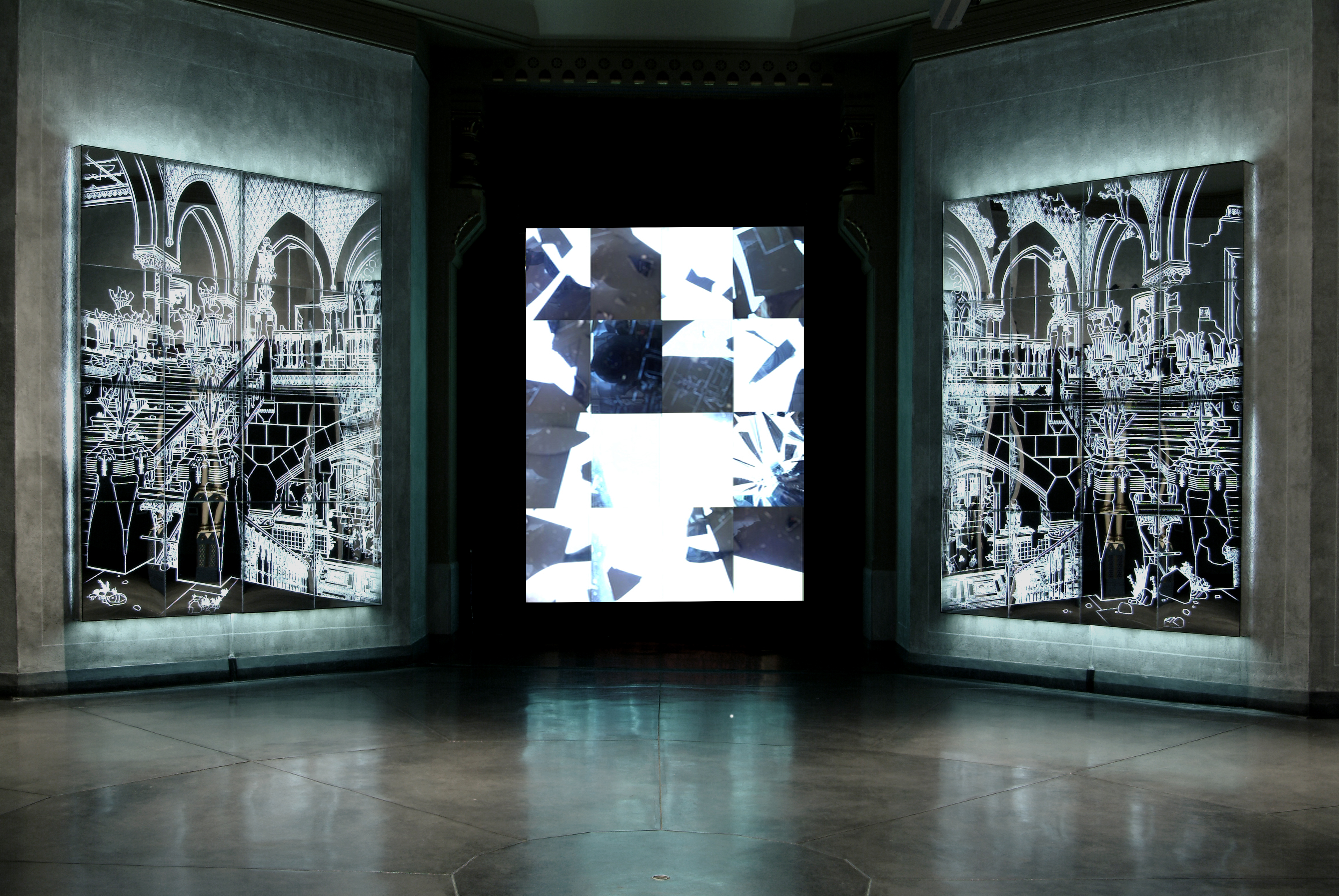 An artwork with all parts of the installation original works of art by Ellen Harvey